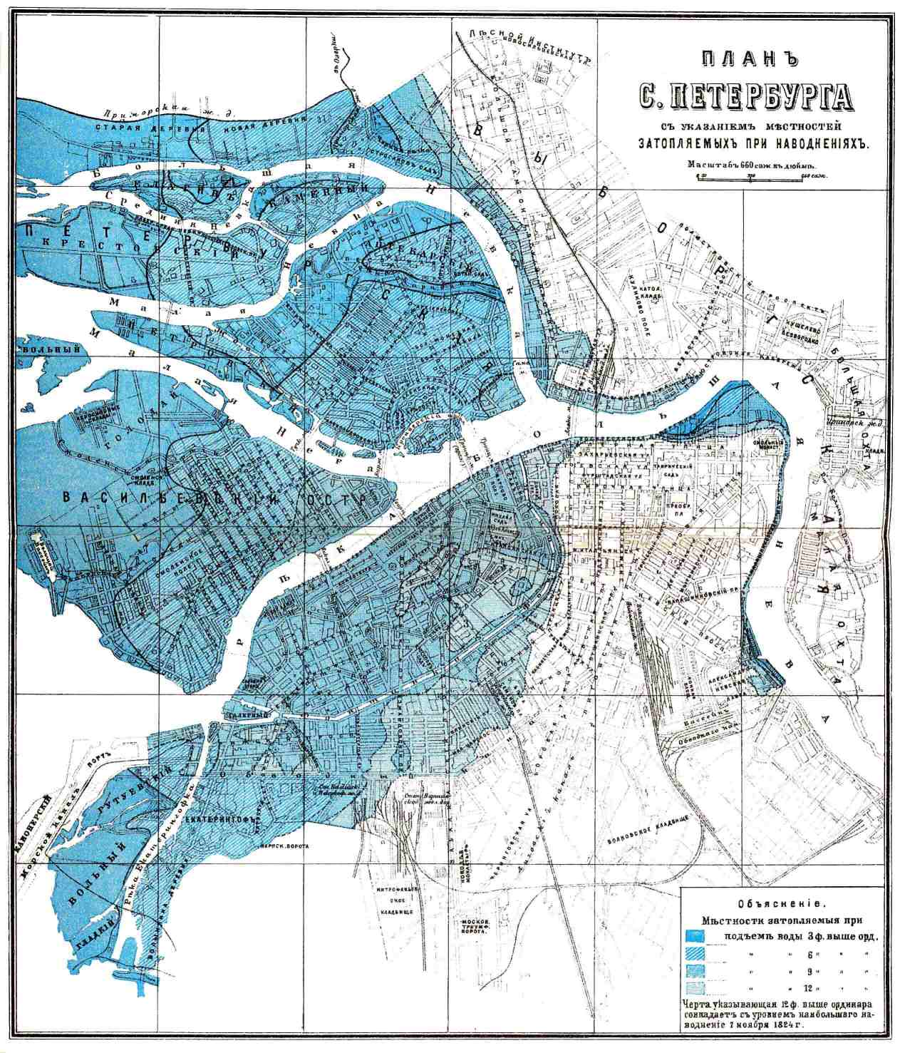 Illustration from Brockhaus and Efron Encyclopedic Dictionary(1890—1907)